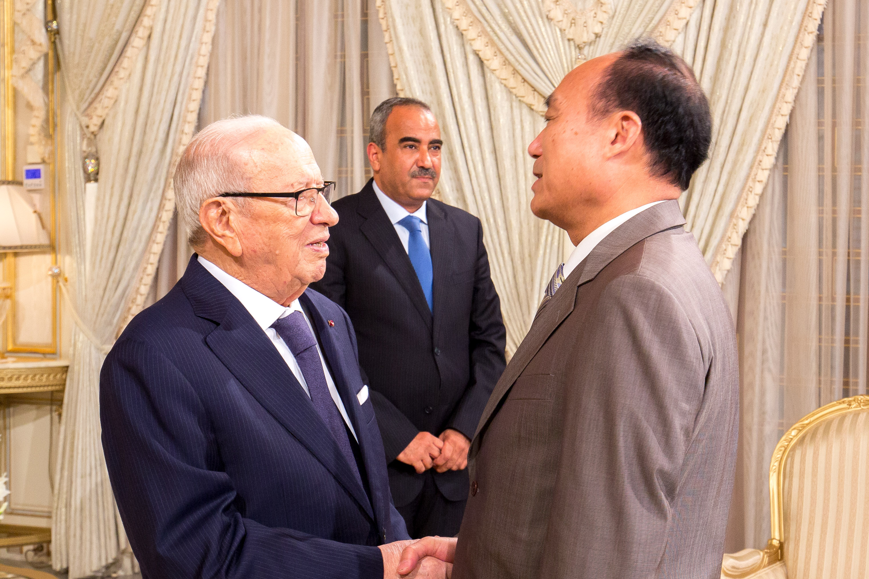 Houlin Zhao, Secretary-General, ITU and Beji Caid el Sebsi President of Tunisia, at the Presidential Palace, 26 October 2016, Carthage - Tunis. © ITU/ J. Marchand